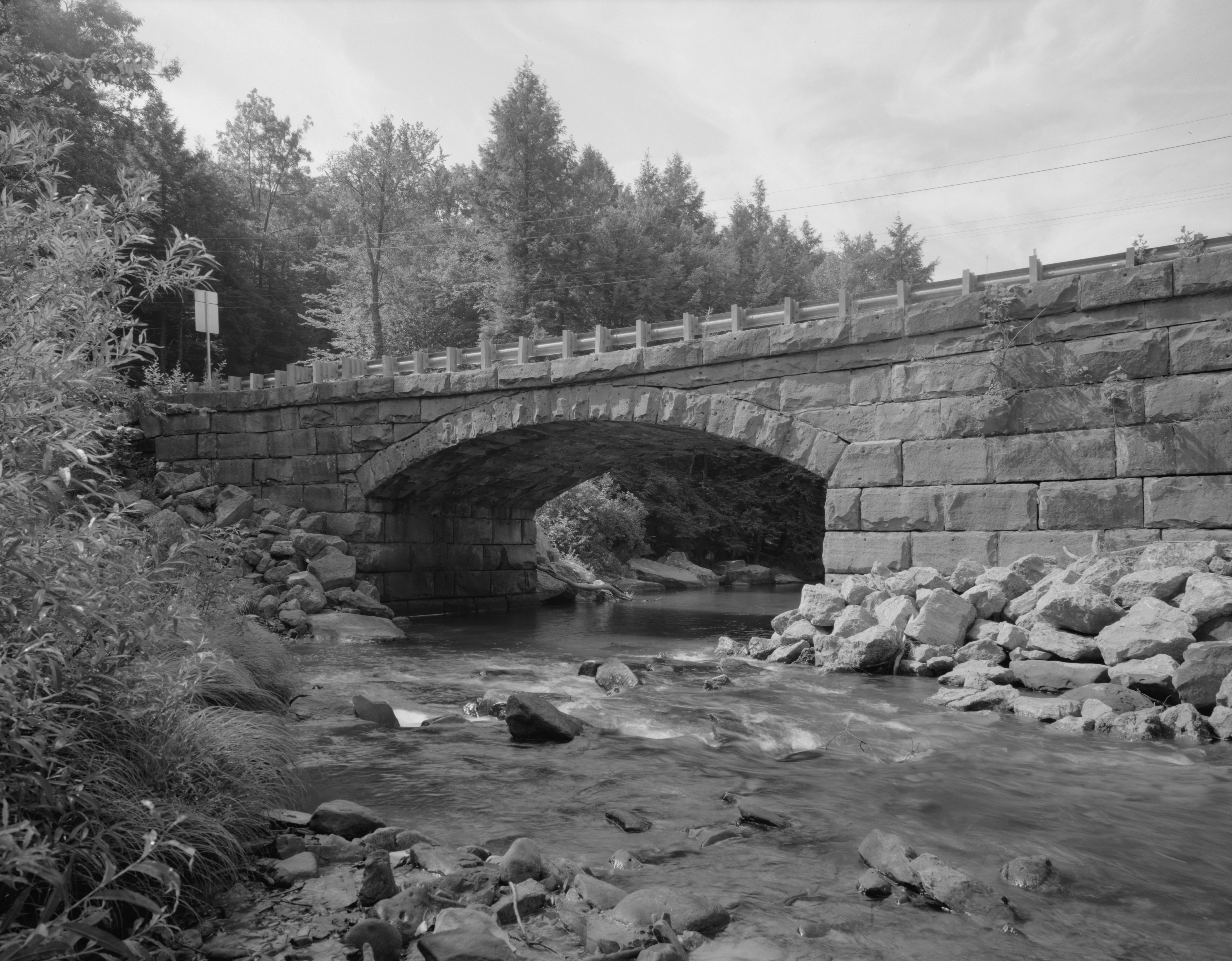 Eastern side of the Pithole Stone Arch Bridge, which carries State Route 1004 over Pithole Creek between Cornplanter and President Townships, Venango County, Pennsylvania, United States. Built in 1897, this stone arch bridge is listed on the National Register of Historic Places.